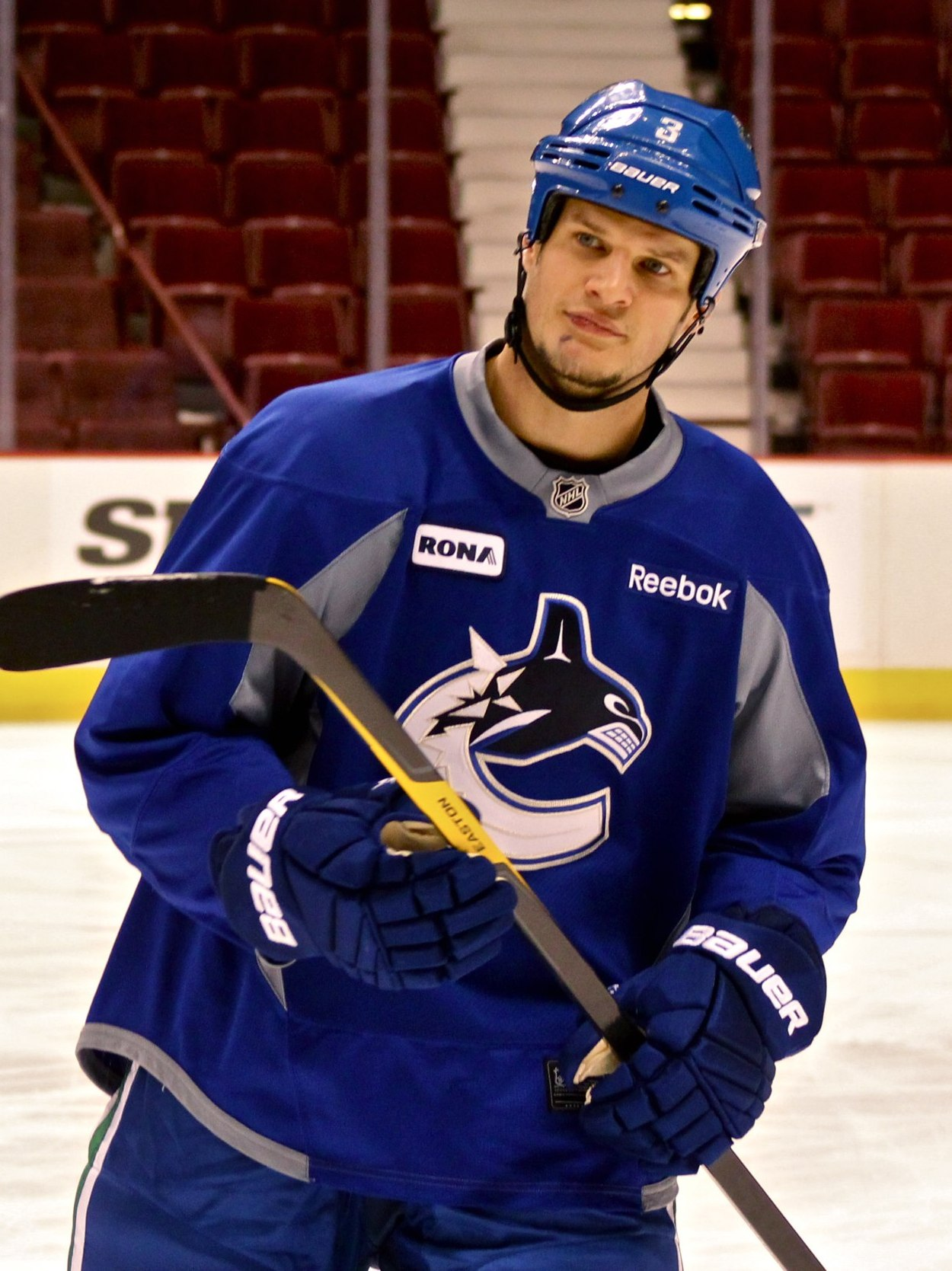 Vancouver Canucks defenceman Kevin Bieksa during a practice on March 9, 2012.